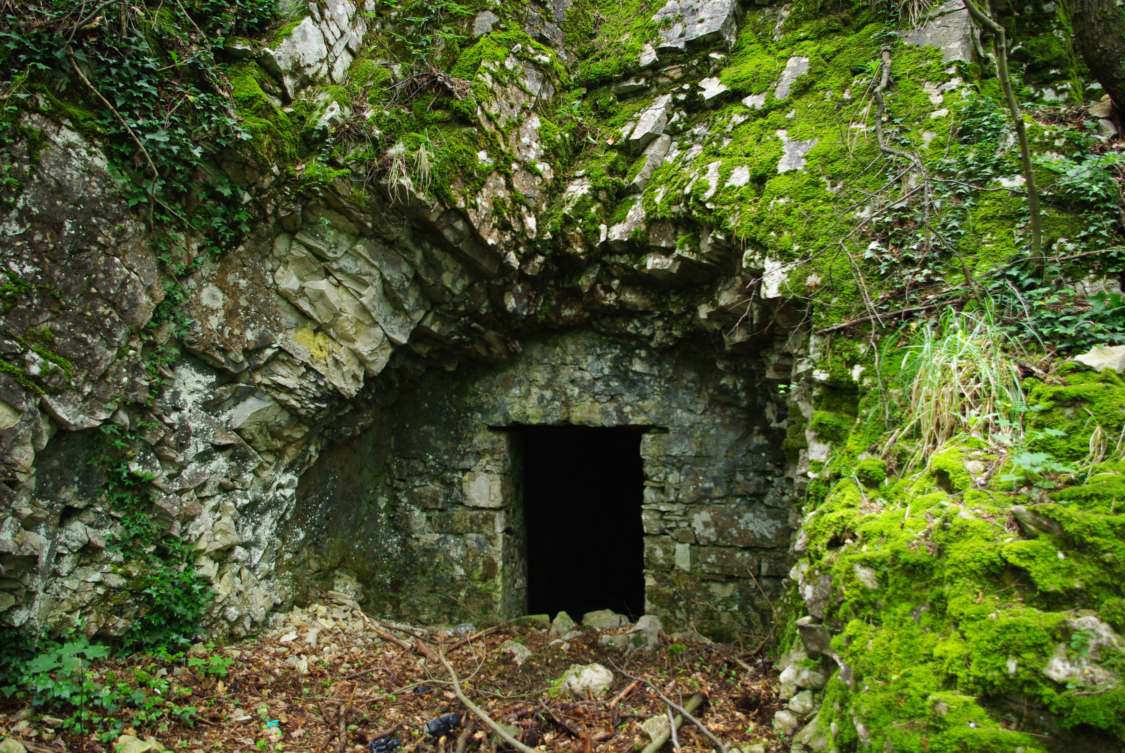 Bunker near Opicine, Trieste, Italy.